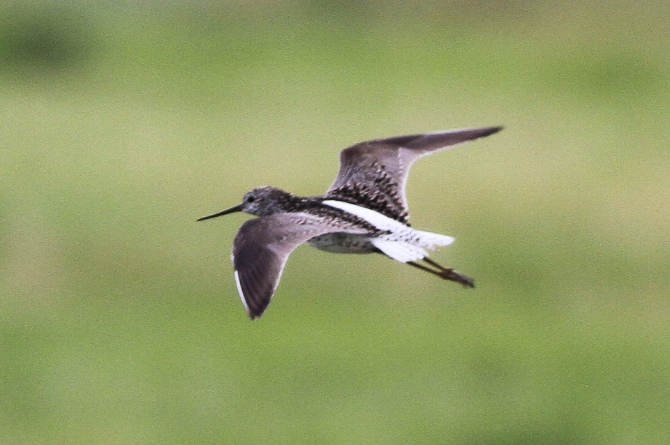 Journey Astana to Kurgaldzhin